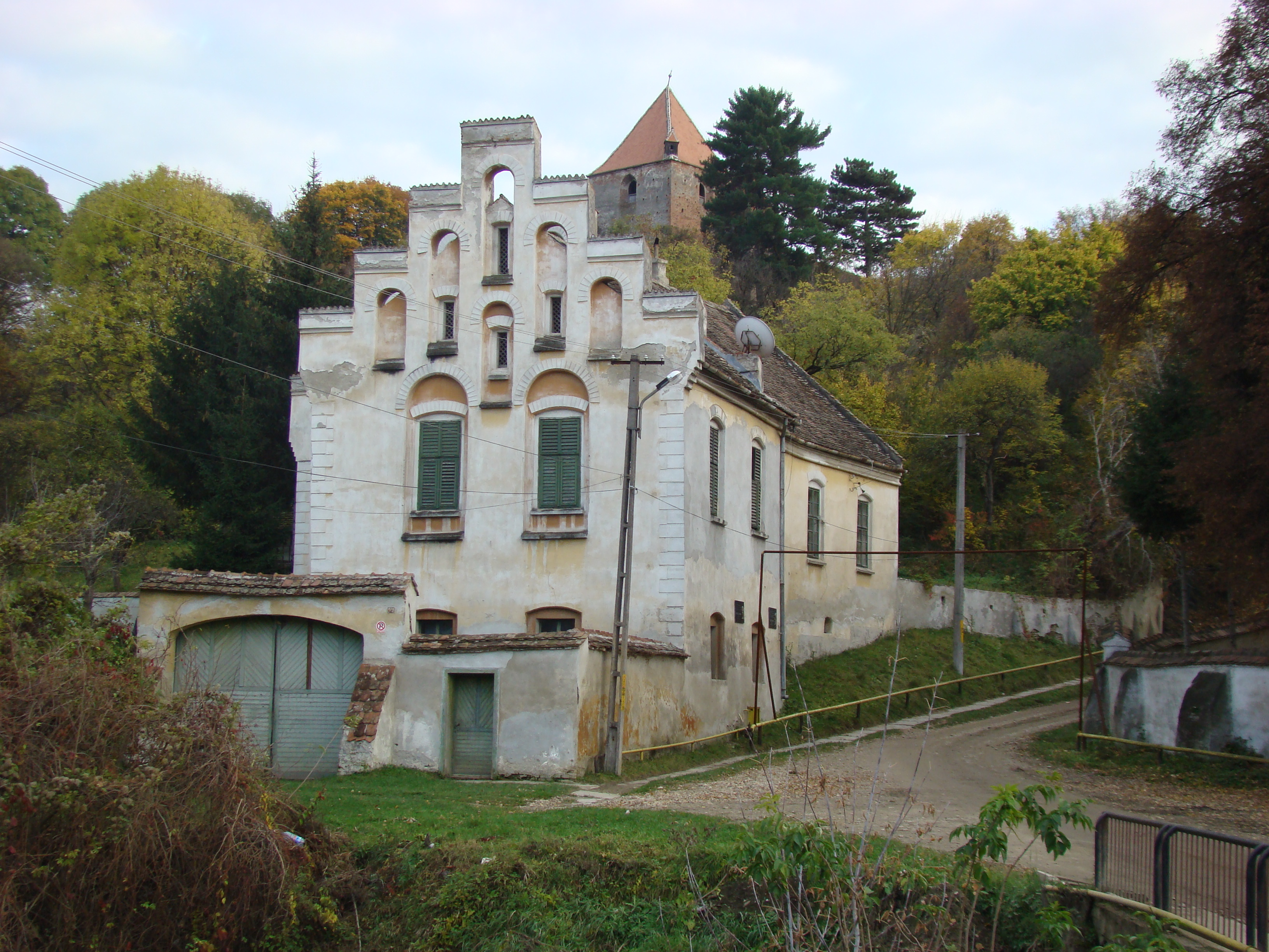 house below the ruins of Slimnic castle